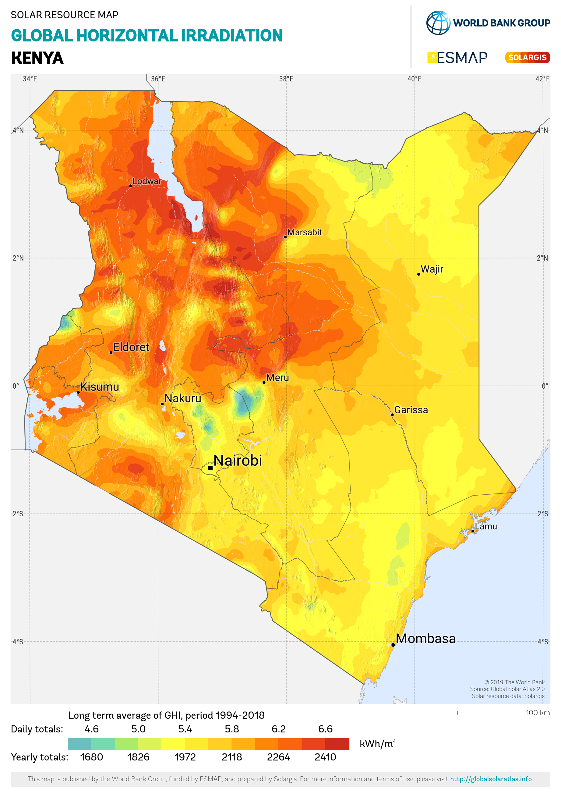 Global Horizontal Irradiation of Kenya